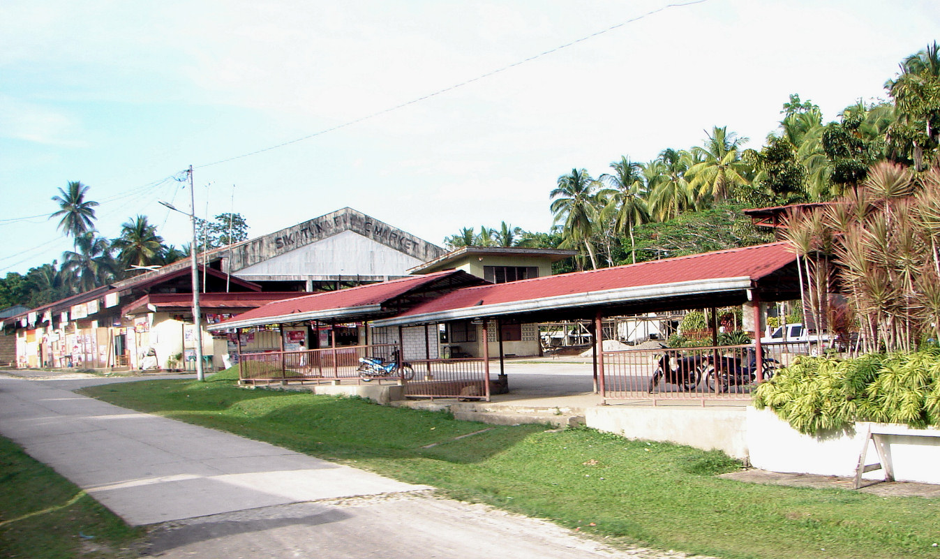 Poblacion of Sikatuna, Bohol, the Philippines